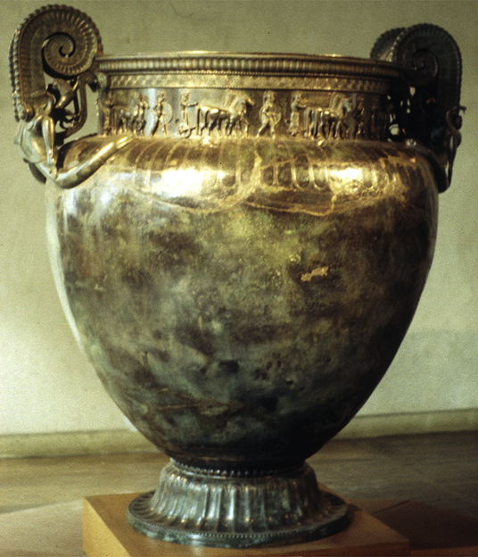 Exceptional for its size and its craftsmanship, the Vix Krater is made of several pieces, and weighs 208.6 kg in total. The vase is made of a single sheet of beaten bronze and weighs around 60 kg. The base is rounded, with a maximum diameter of 1.27 m. It has a capacity of 1100 litres. The thickness of the sides varies between 1 and 1.3 mm, and there is no sign of welding. The foot is cast, and has a diameter of 74 cm and weighs 20.2 kg. It is decorated with classical motifs and stylised vegetation. The handles are cast in bronze and weigh around 46 kg. The volutes (the spiral shapes on the top of the handles) are 55 cm high, and are richly decorated with grimacing gorgons. The neck of the vessel is decorated with images of soldiers in relief. Eight chariots driven by charioteers are each followed by an armed hoplite on foot. The lid, made of a sheet of beaten bronze weighing 13.8 kg, has an 18 cm-high statuette of a woman in the center. The museum currently say made c. 530 BC [1]